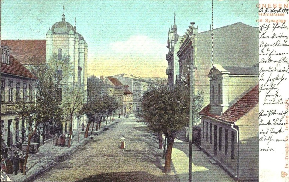 Reform synagogue in Gniezno circa 1900. Post card published in Leipsic. From Museum of the Polish State Origins in Gniezno 's collection.